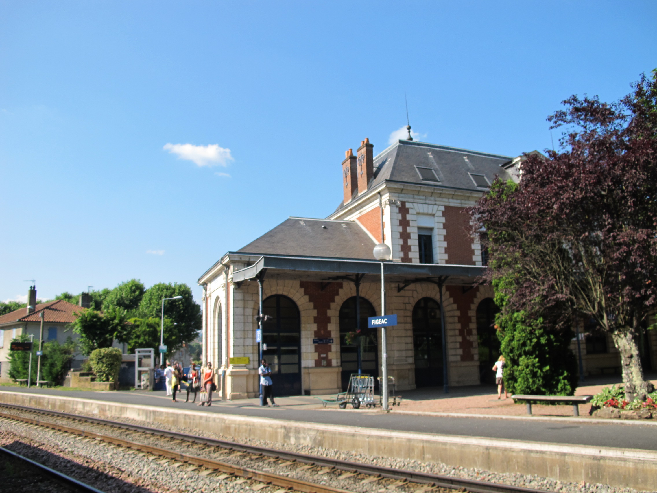 Train station in Figeac